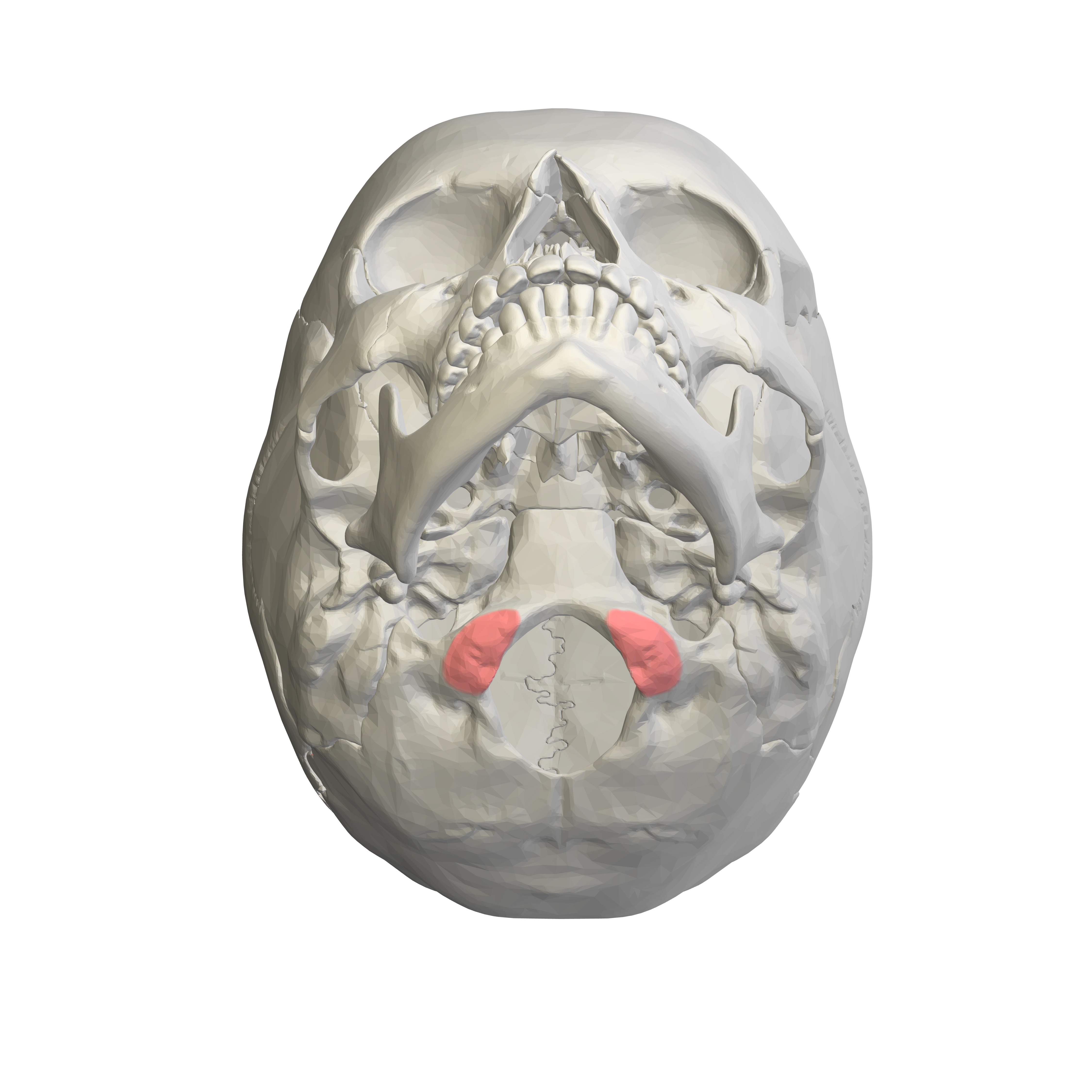 Occipital condyle (shown in red)